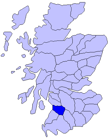 Map showing roughly the former district of Kyle in Scotland.